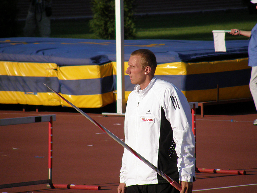 Igor Janik - 2010 Polish Championships in Athletics (Bielsko-Biała)